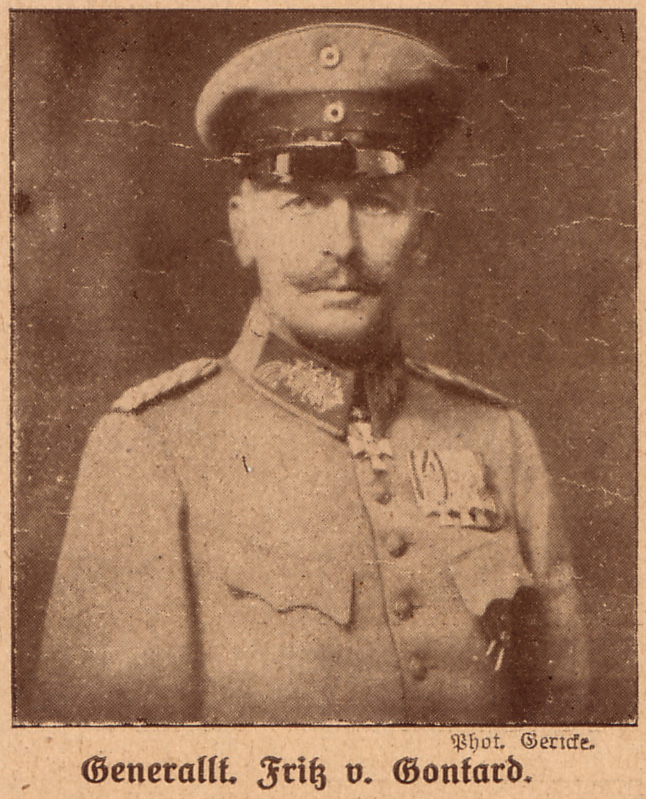 German Lieutenant-General Friedrich von Gontard (1860–1942), during WWI